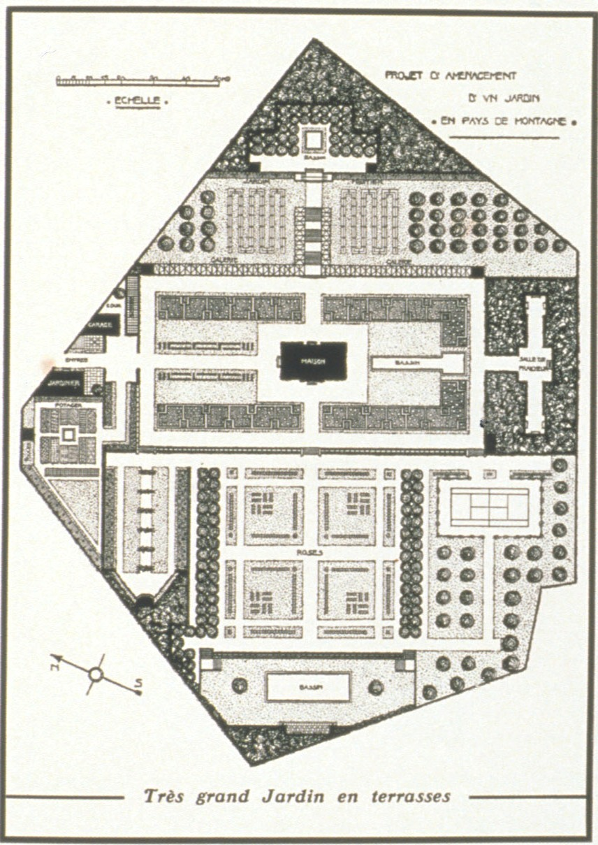 Illustration from Le nouveau jardin, text by André Vera, illustrated by Paul Vera